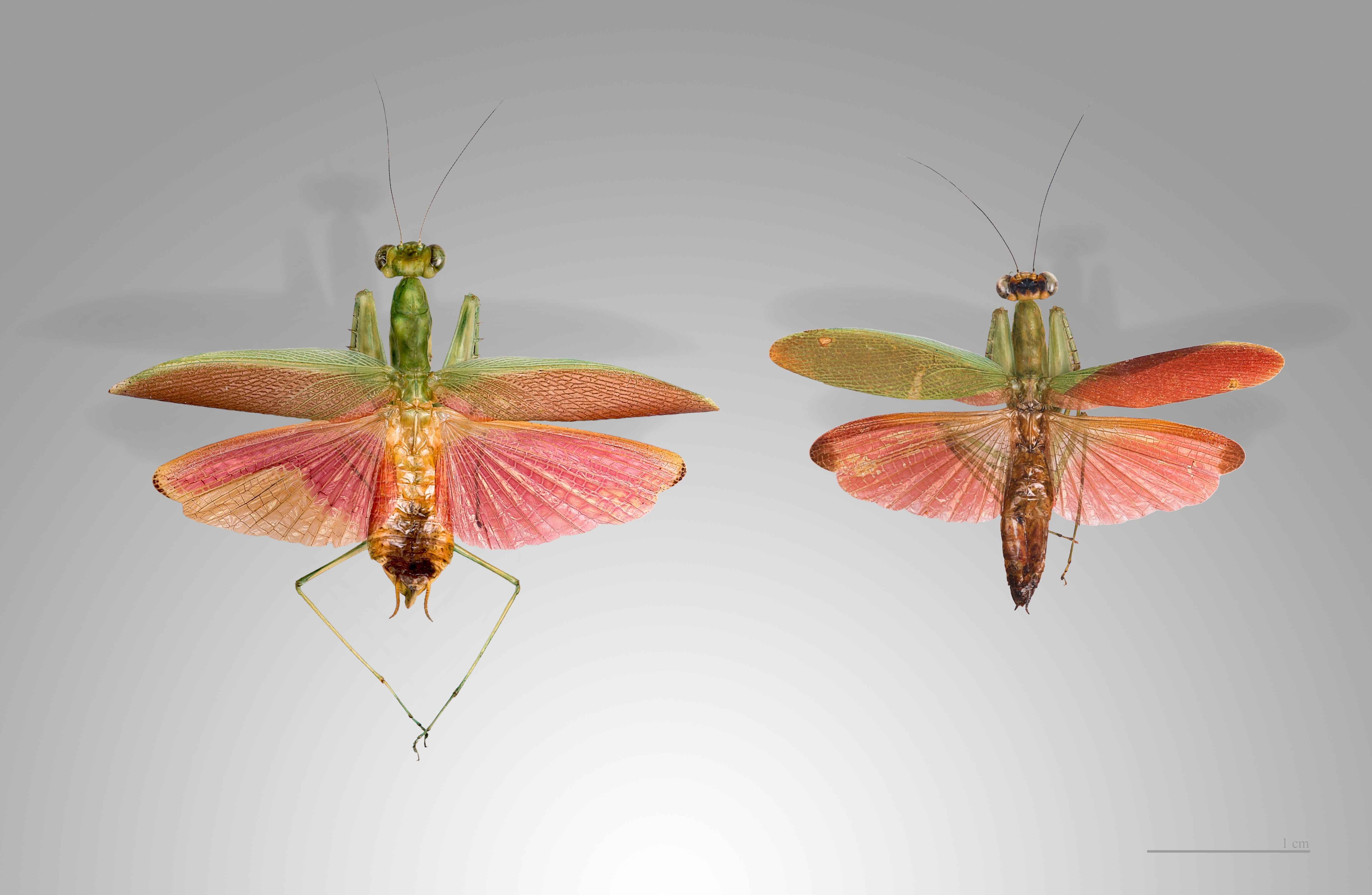 ♂ ♀ - Flying position Locality : French Guiana.